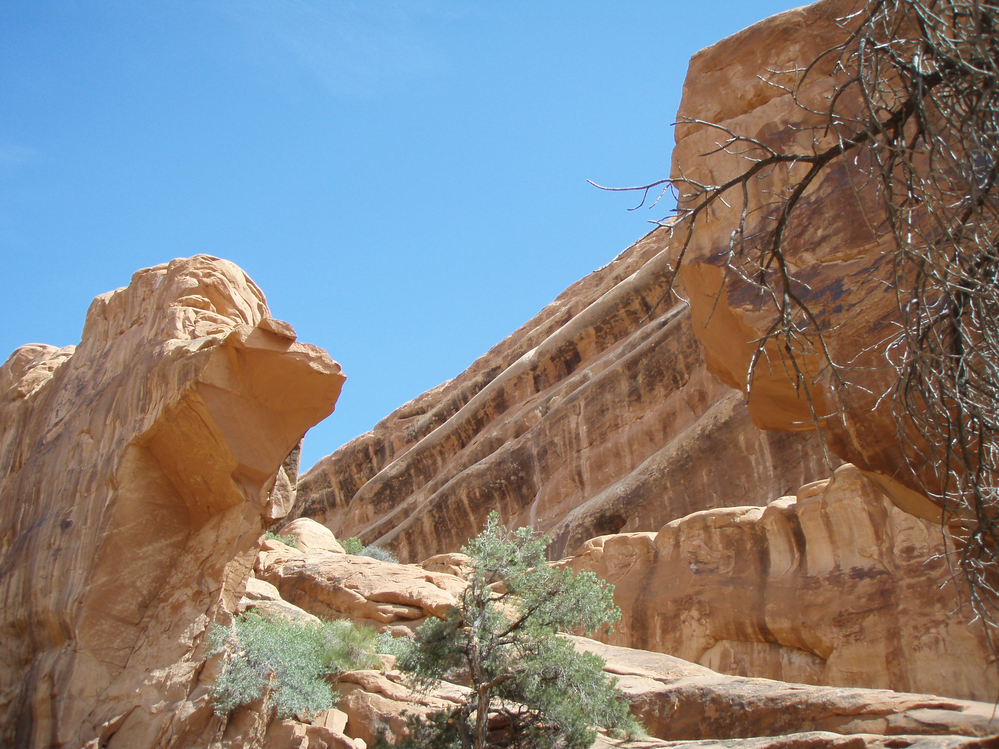 (former) Wall Arch, a natural arch in Arches National Park, Utah, USA - after the collapse in the night of 2008-08-05